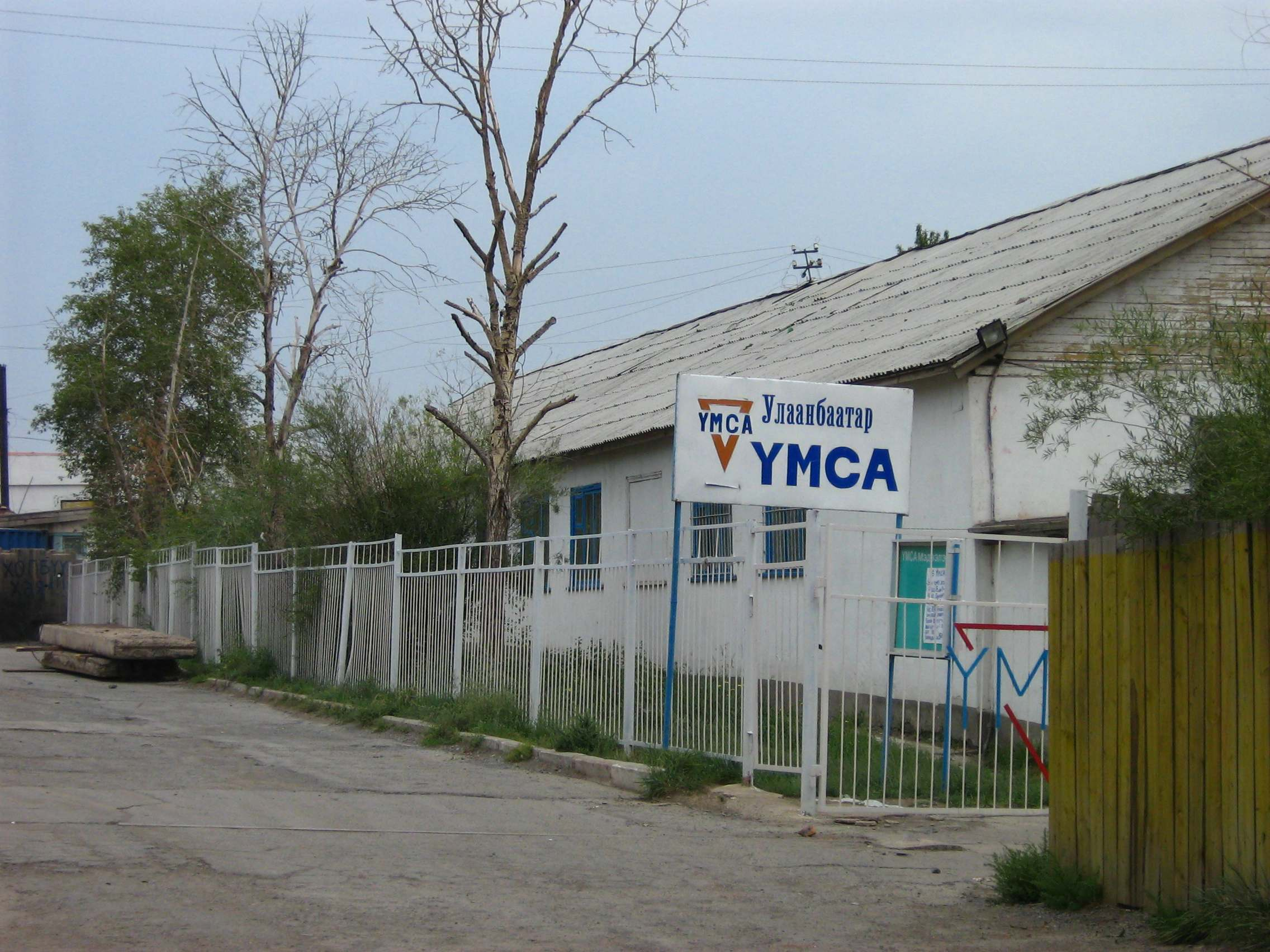 YMCA office in (Ulan-Bator) Ulaanbaatar, Mongolia